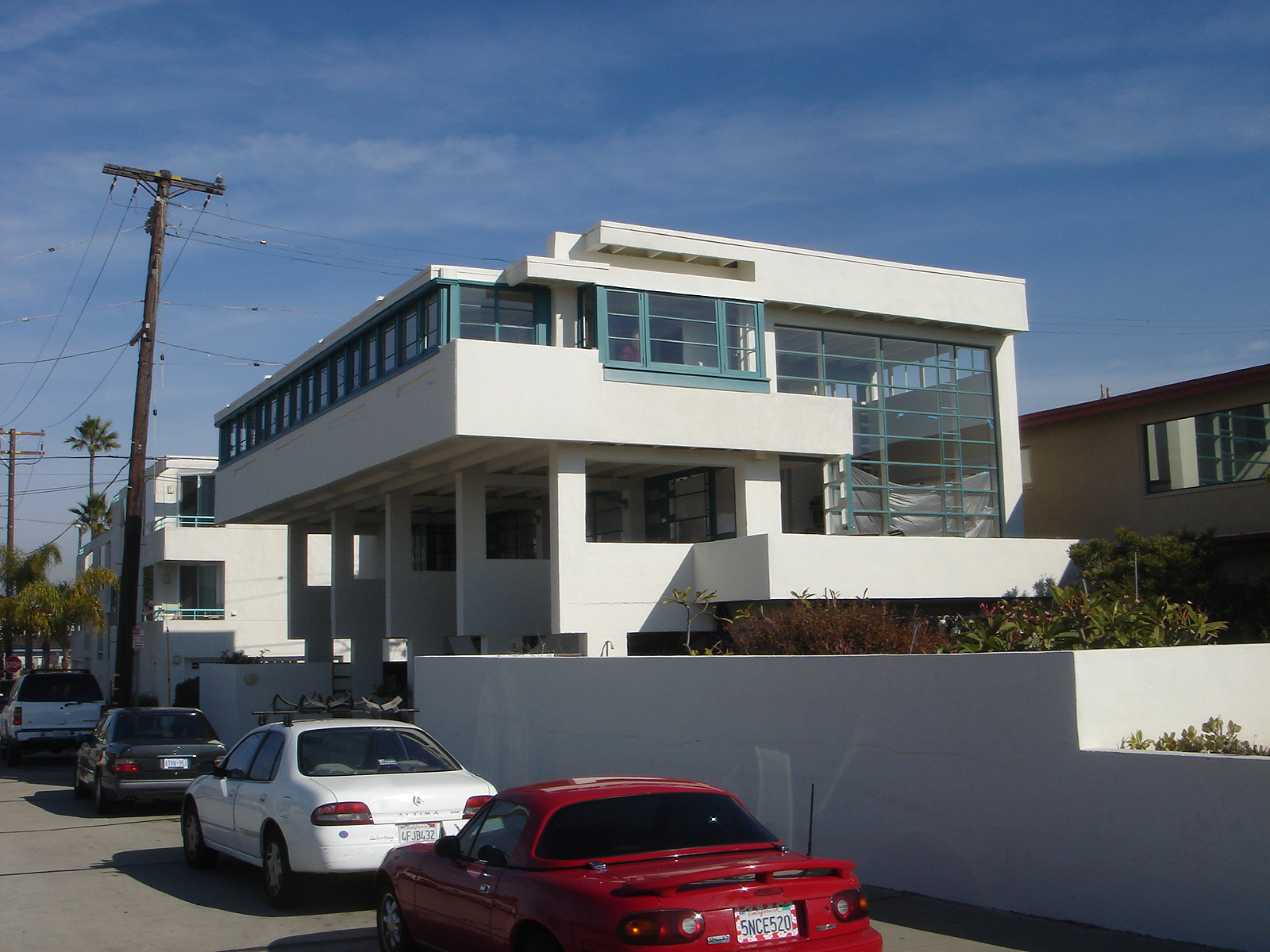 Another view.